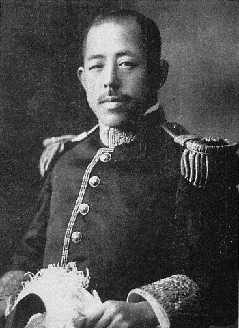 Tadashiro Inoue